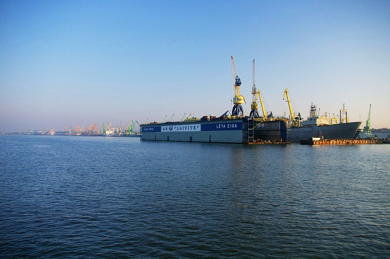 Klaipeda Port and Floating Dock of AB Laivite, Lithuania